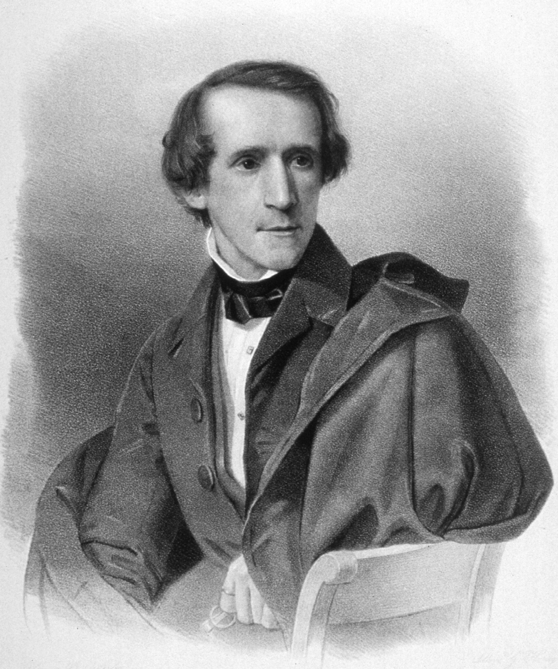 Picture of Rudolf Wagner (1805-1864), physiologist and anatom.